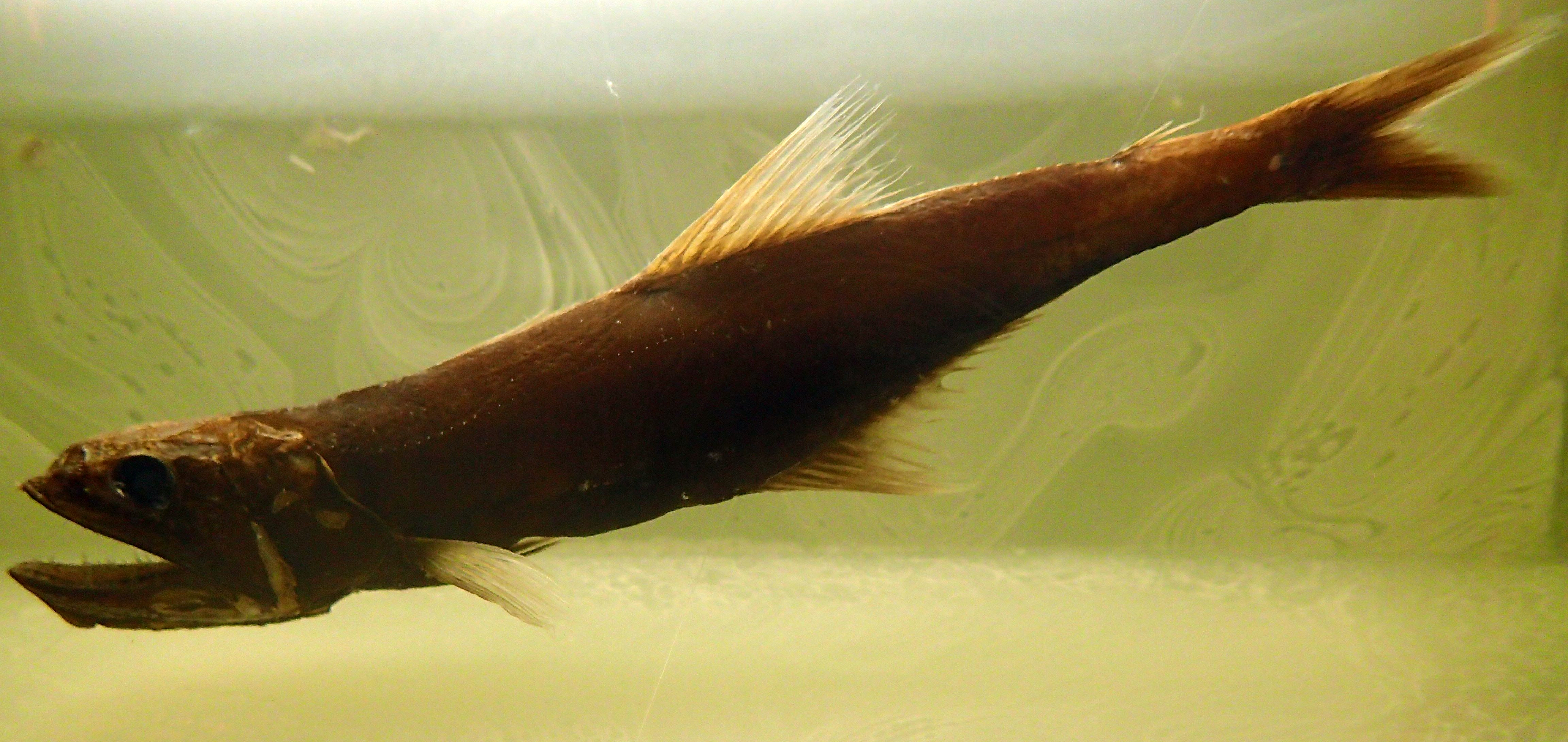 Singapore, Museum of Art and Science 10-11-2015 20cm